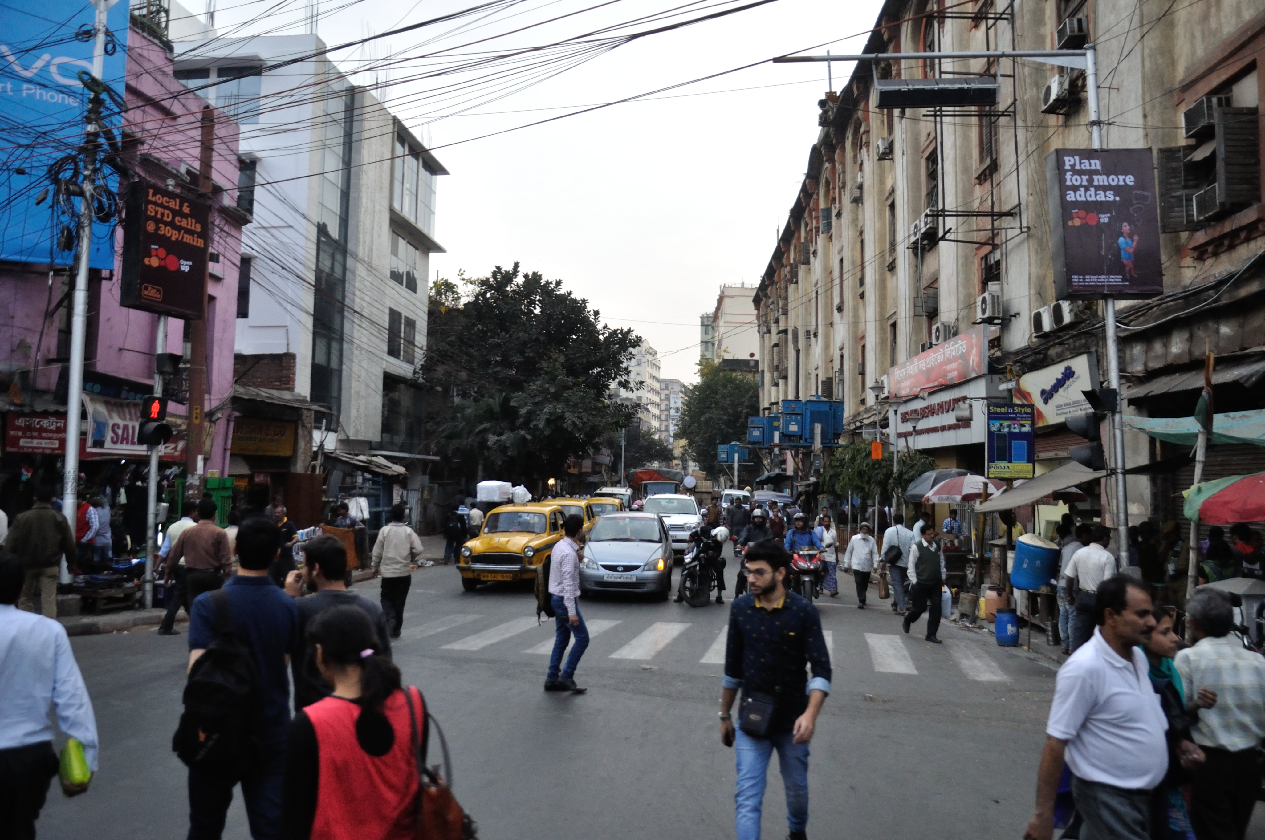 Photographed in Kolkata.